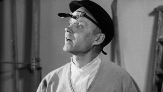 Photograph of the Finnish sculptor Aimo Tukiainen (1917–1996).